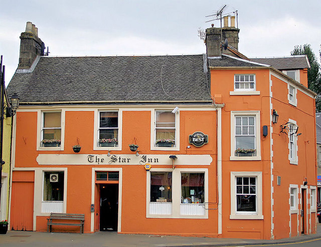 Local Pub, Strathaven Colourful exterior of this building in the heart of Strathaven.